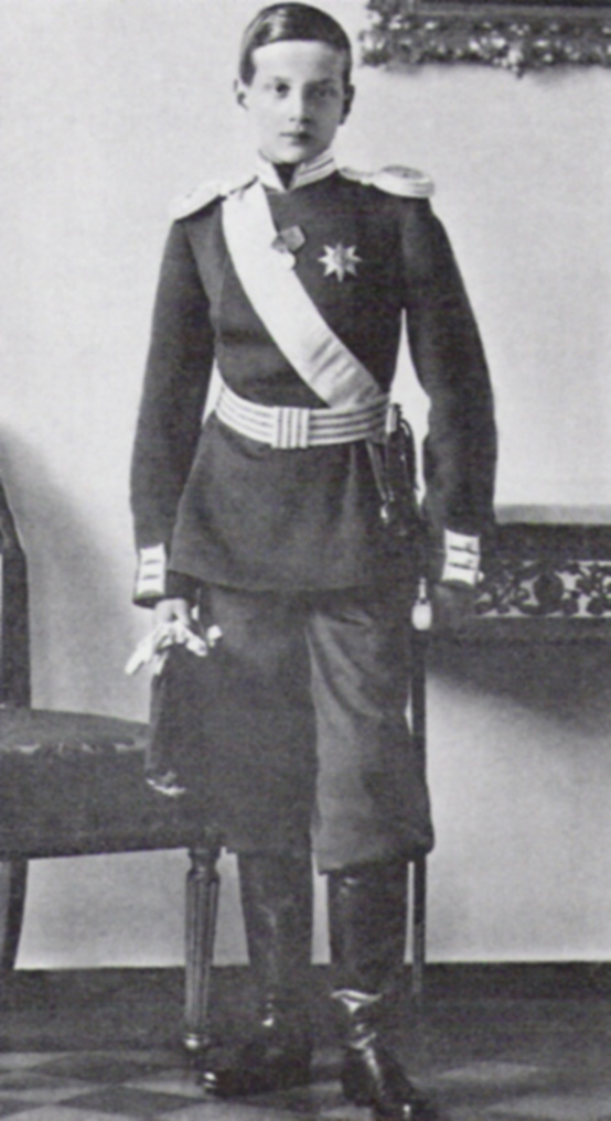 Grand Duke Dmitri Pavlovich of Russia